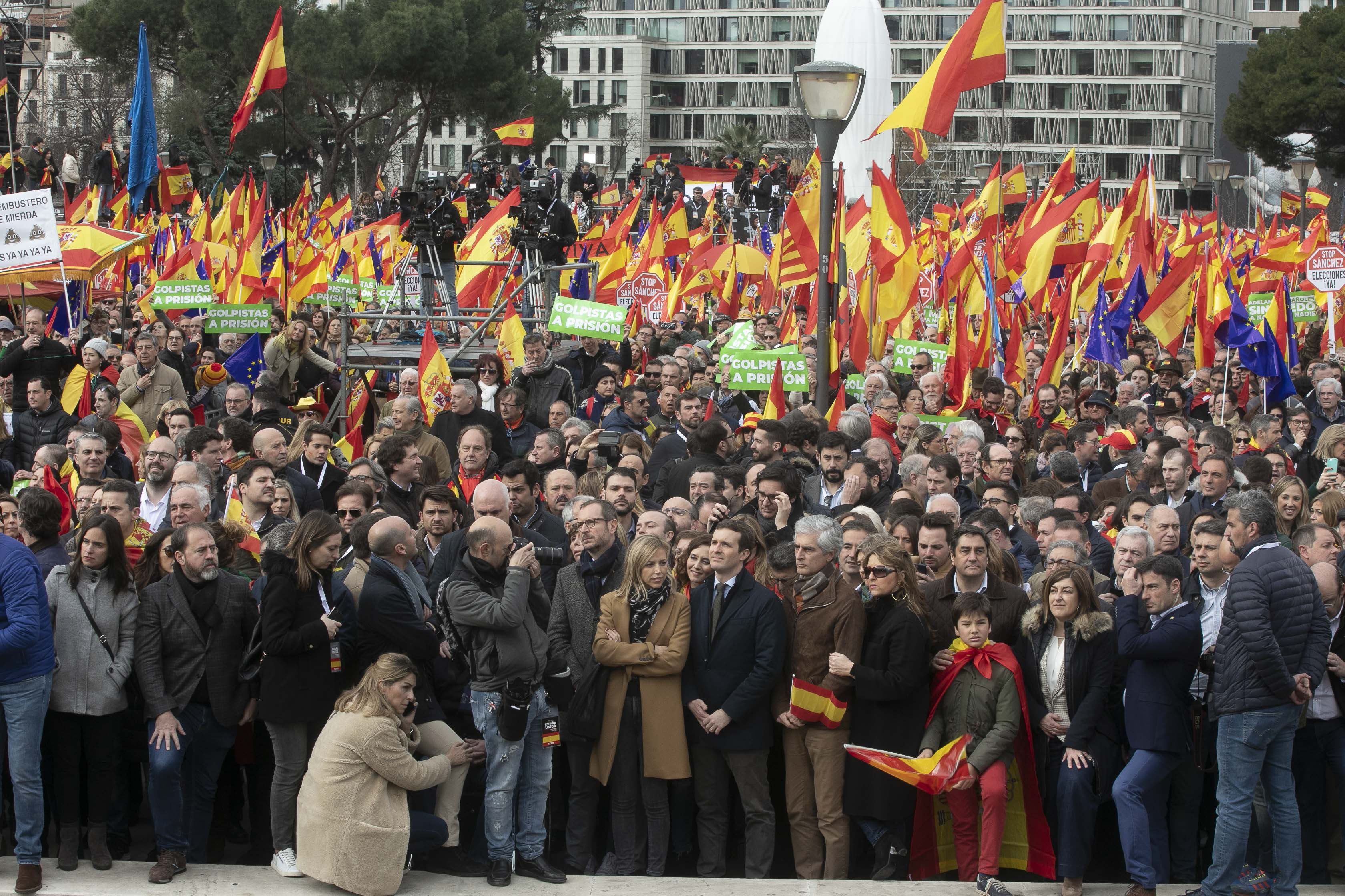 Concentración en Plaza de Color contra Pedro Sánchez